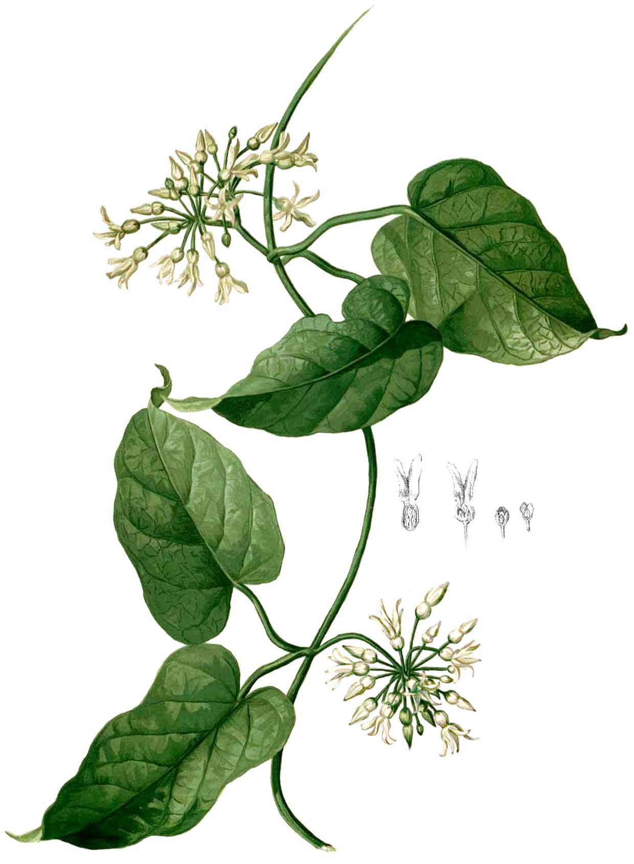 Plate from book